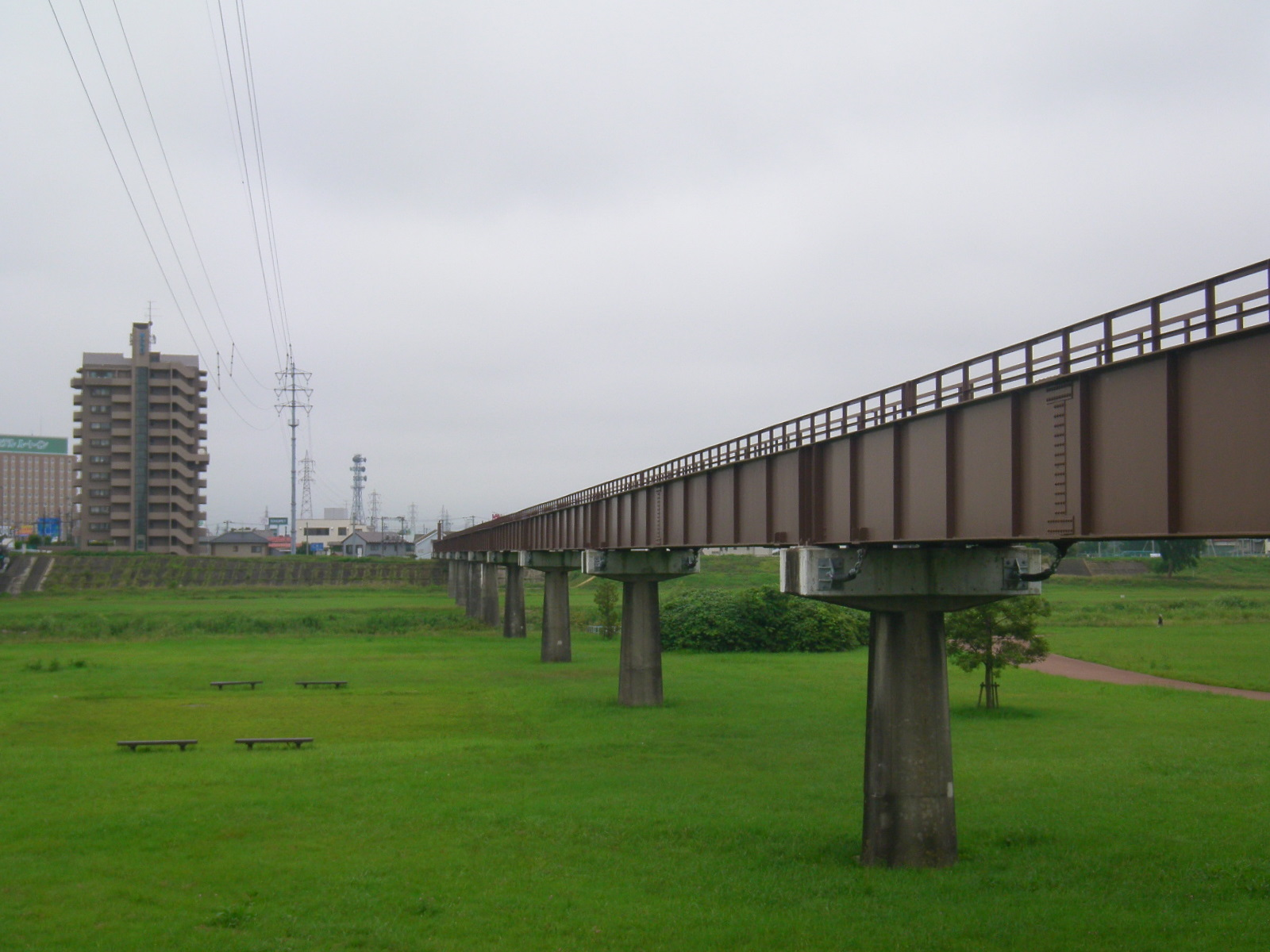 Main Sewer Pipe Line Bridge for Natori River's Left Bank (Natori-gawa Sagan Kansen Gesuikan-kyō). A bridge over the Hirose River (not Natori). This photograph was taken toward southwest from the left bank of Hirose River. Wakabayashi, Wakabayashi word, Sendai, Miyagi prefecture, Japan.